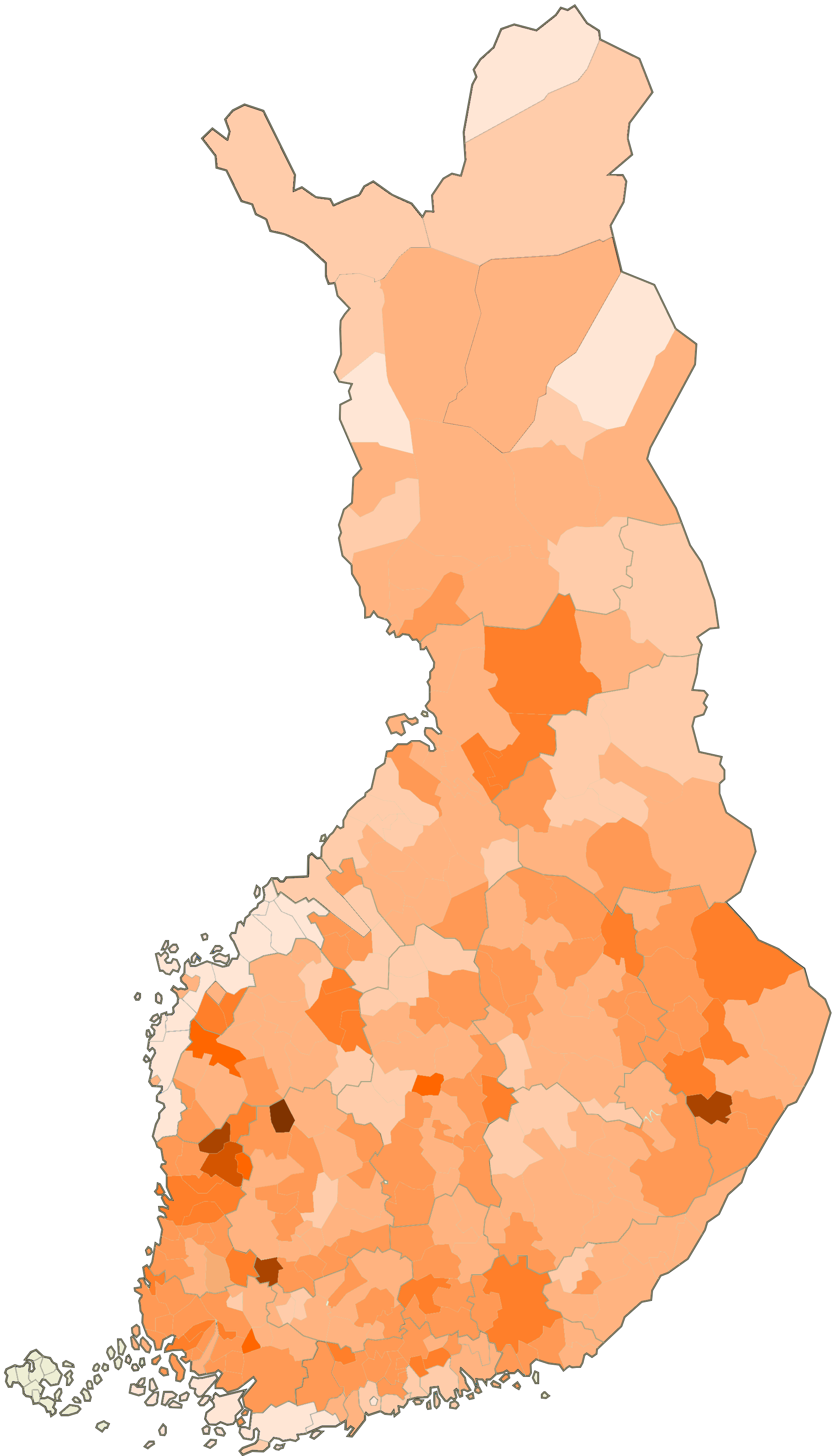 Support for the Finns Party in the 2015 parliamentary election.